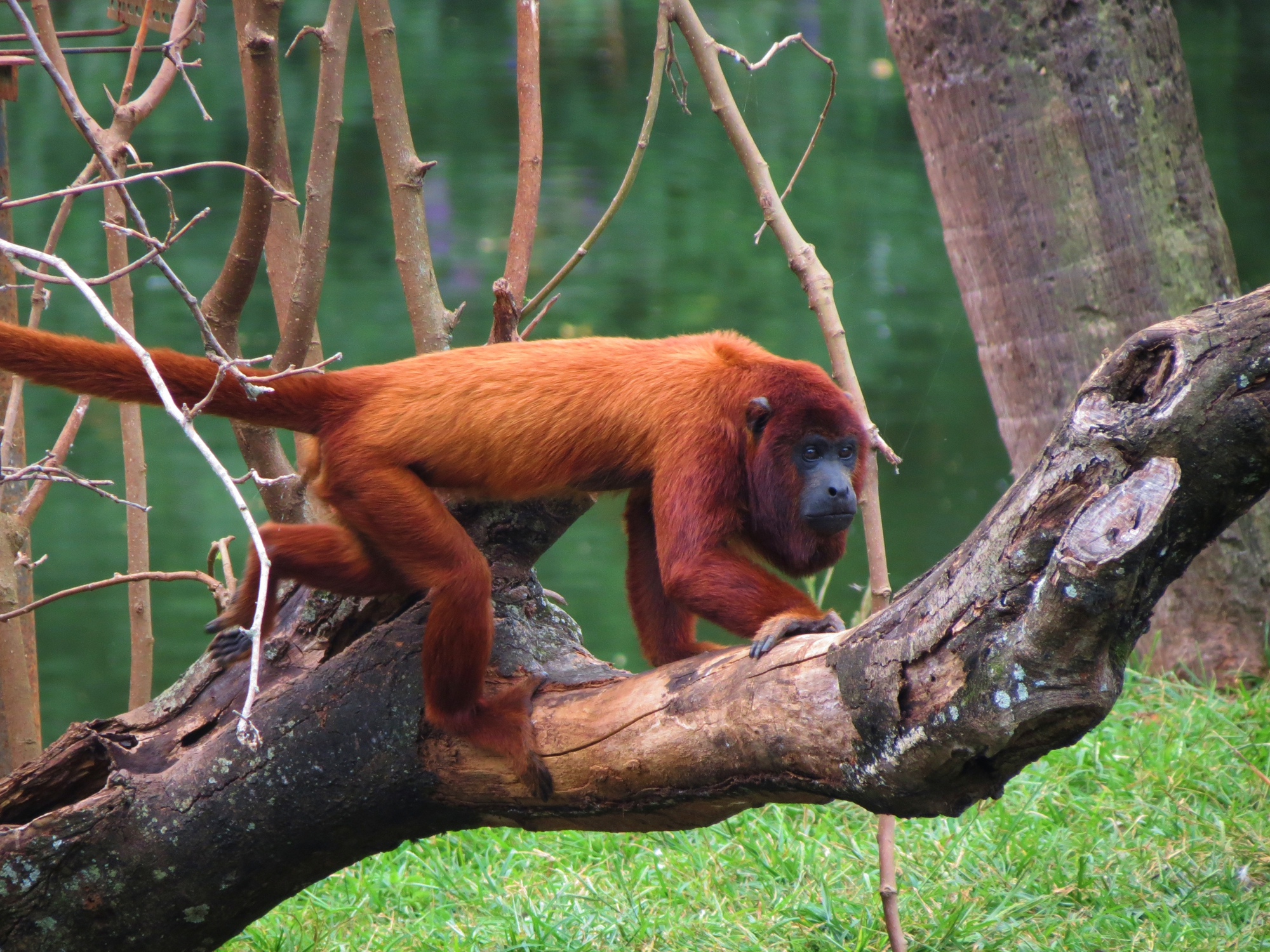 Red howler monkey (Alouatta seniculus) in Sorocaba Zoo.